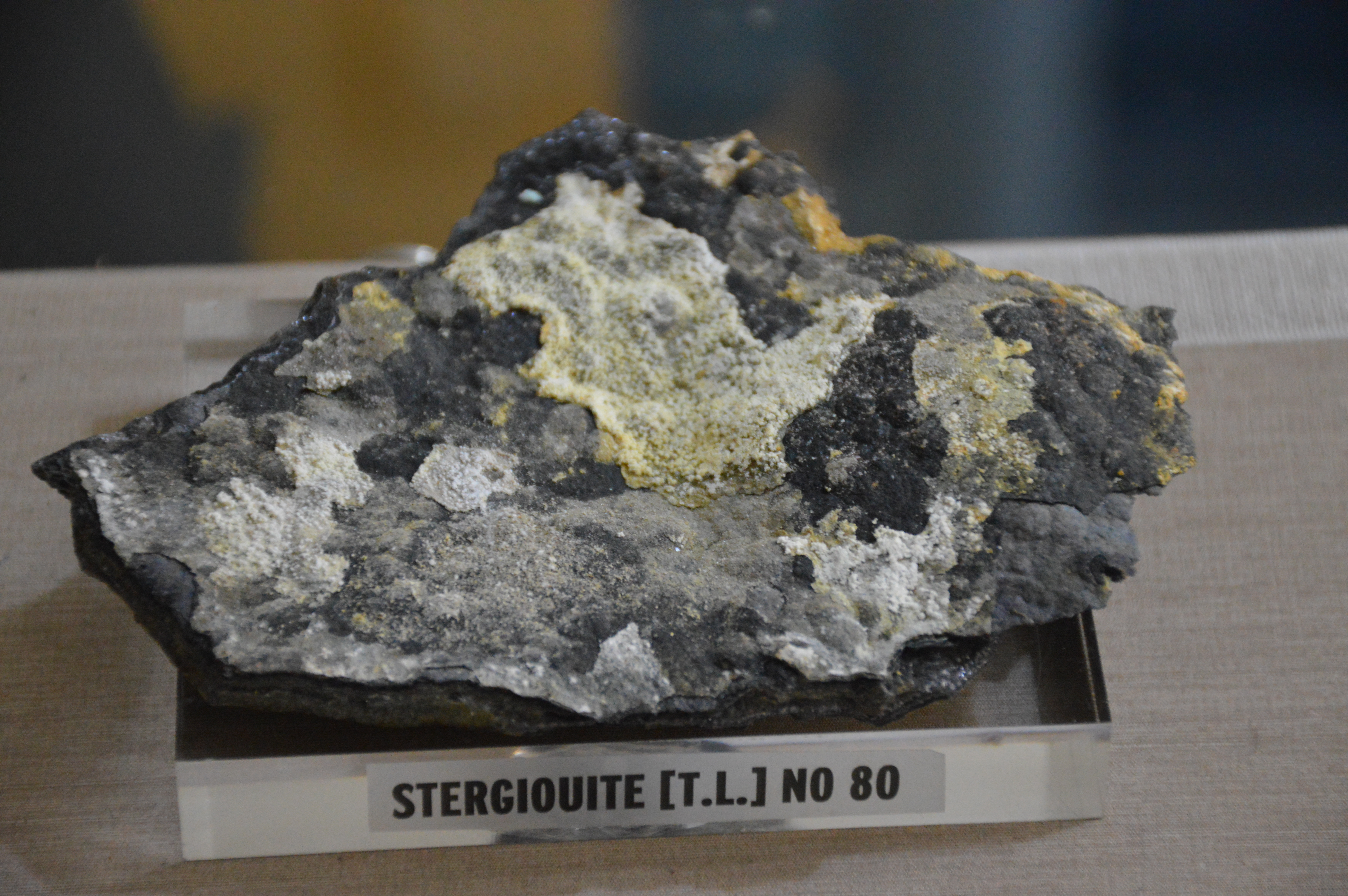 Stergiouite is a new mineral from the Plaka area in the northern part of the Lavrion Mining District, Greece.